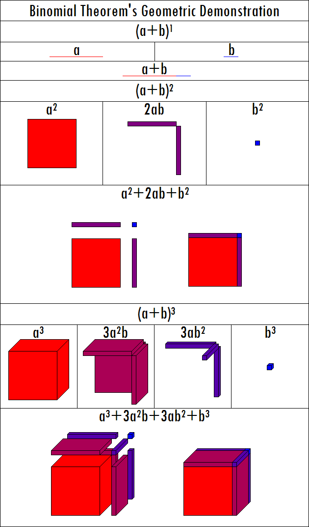 Binomial Theorem's Geometric Demonstration